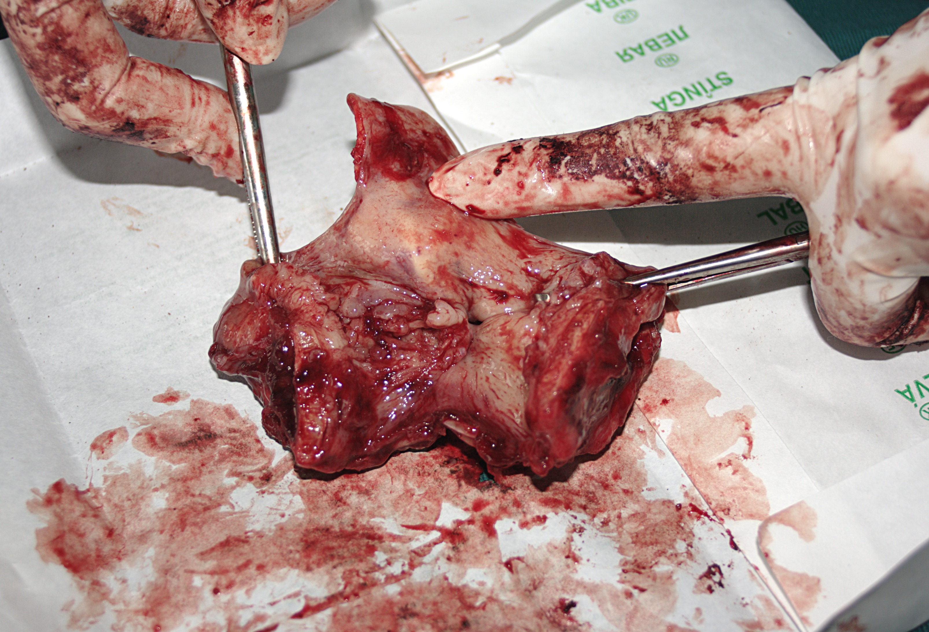 Larynx cancer